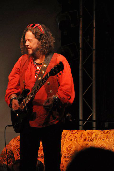 Buzz Dee from German band Knorkator